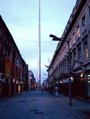 image of the new Spire of Dublin from Henry St. No copyright - image taken by me